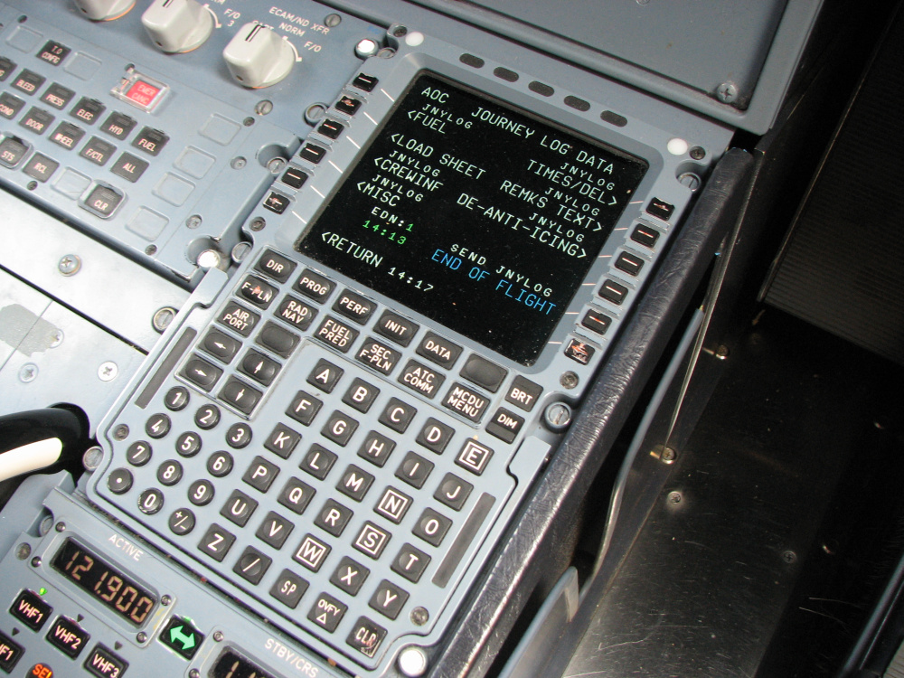 First officer's MCDU of an A320-200